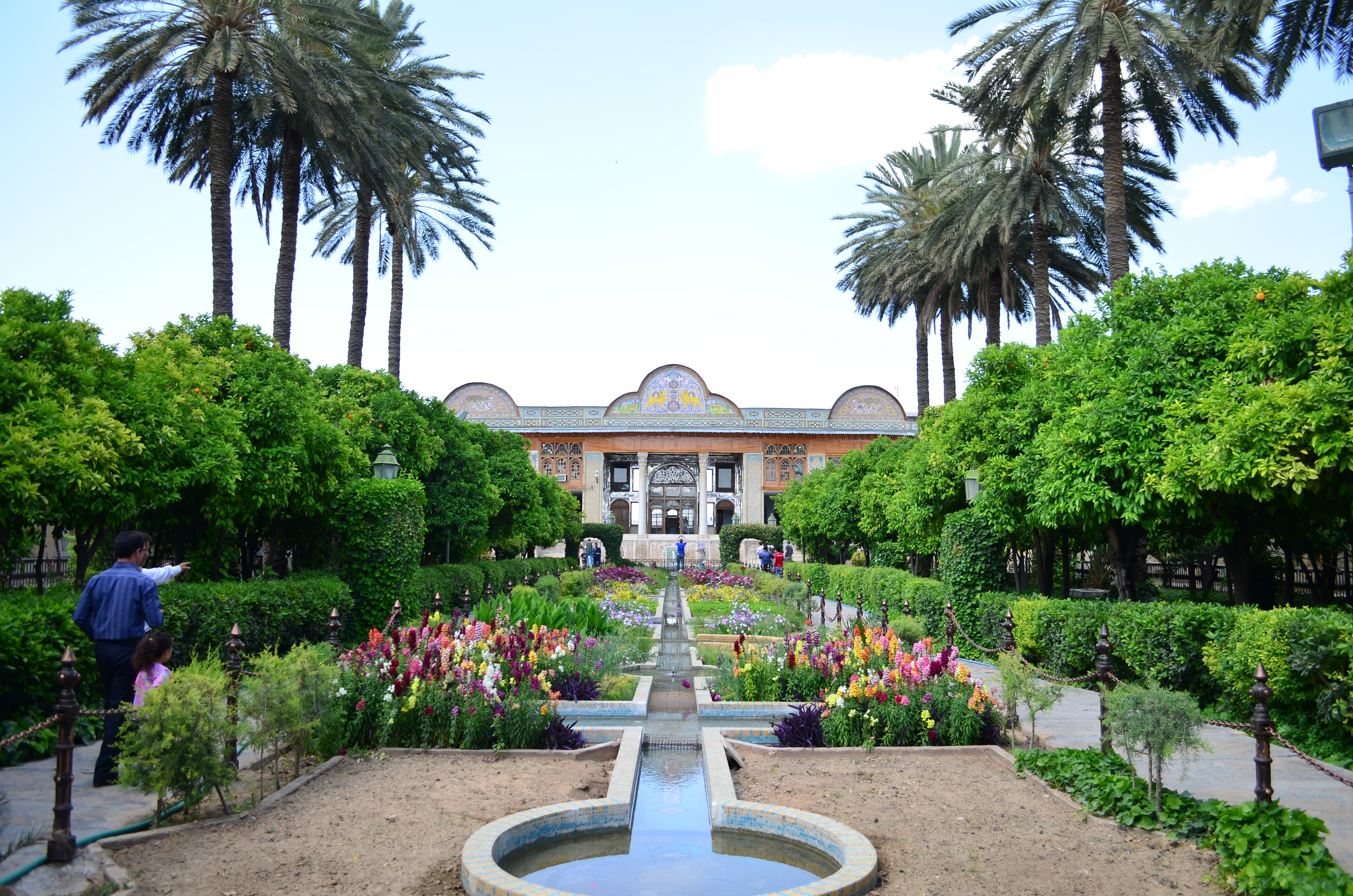 Qavam House